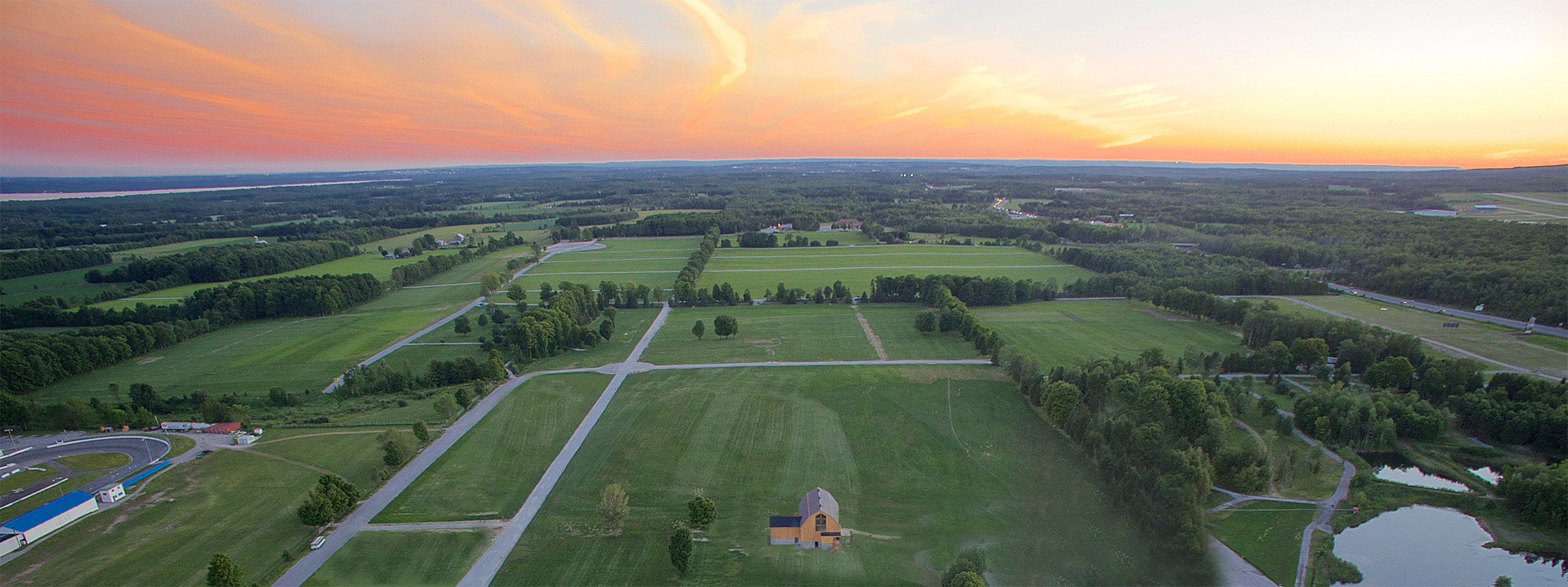 Field of boots and hearts and WayHome music festival